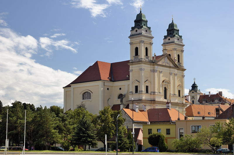 Parish church in Valtice